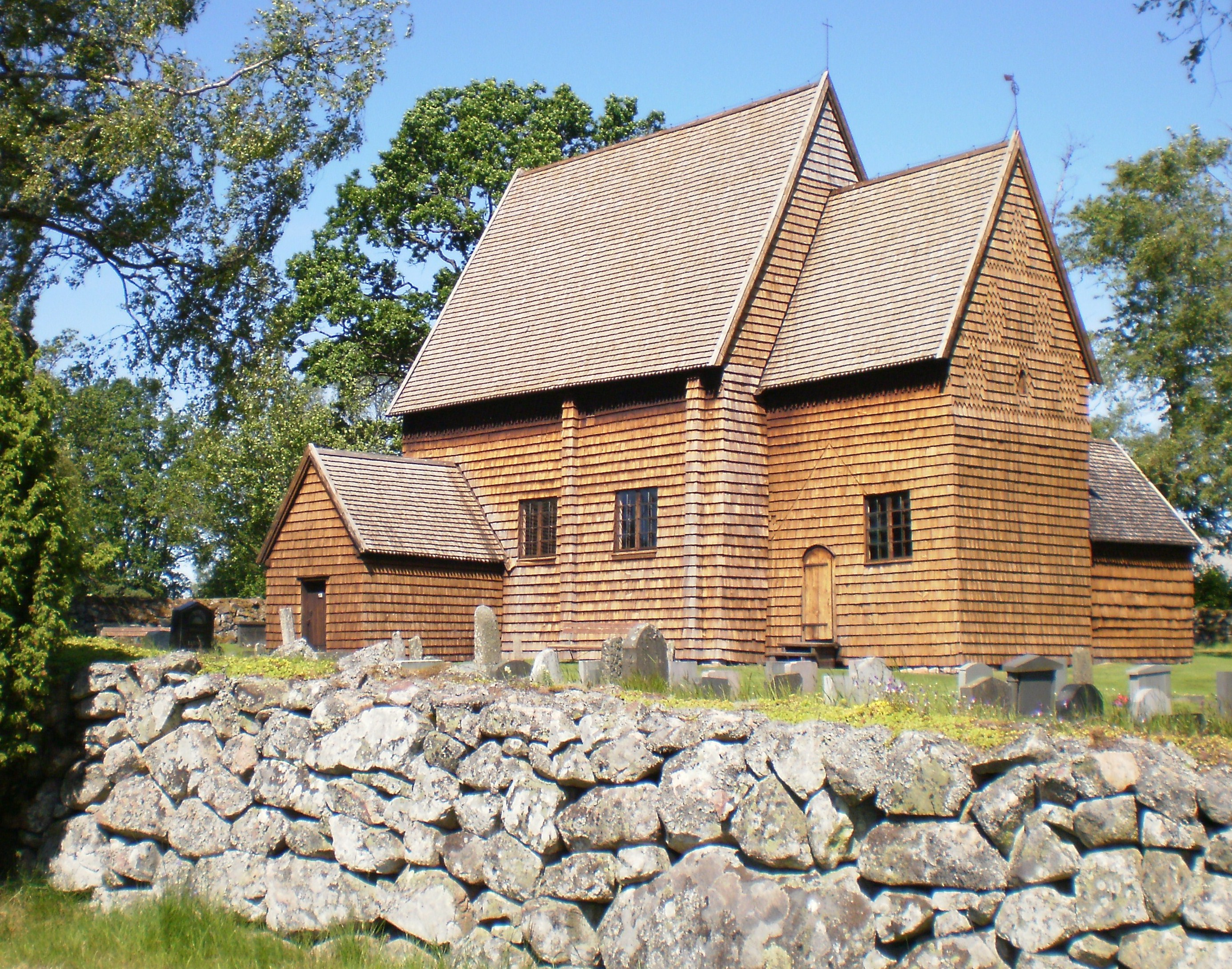 Granhults Church from the Southeast.